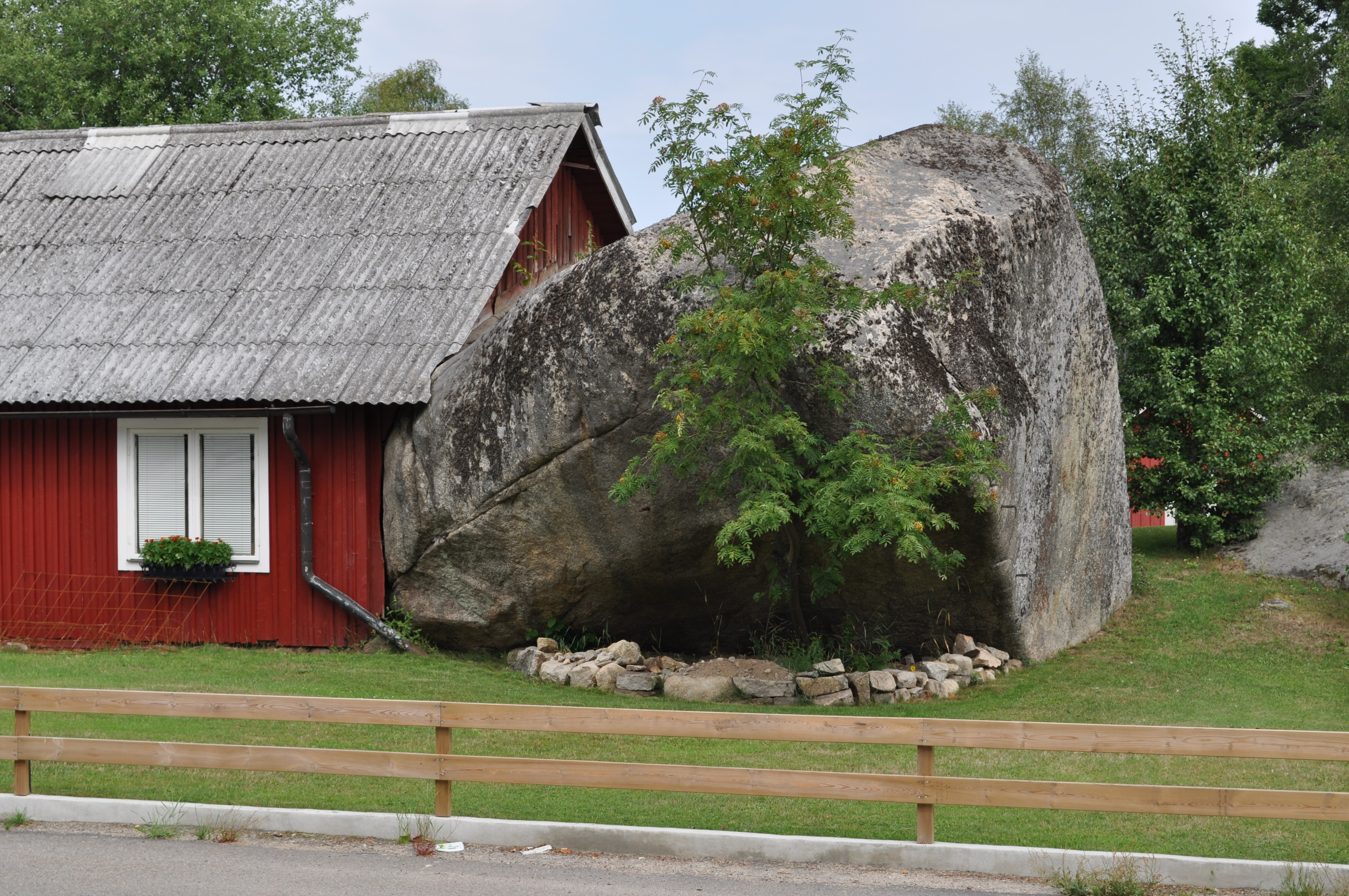 Glacial erratic in Ryd, Amundsryd Parish, Tingsryd Municipality, Kronoberg County, Småland, Sweden.